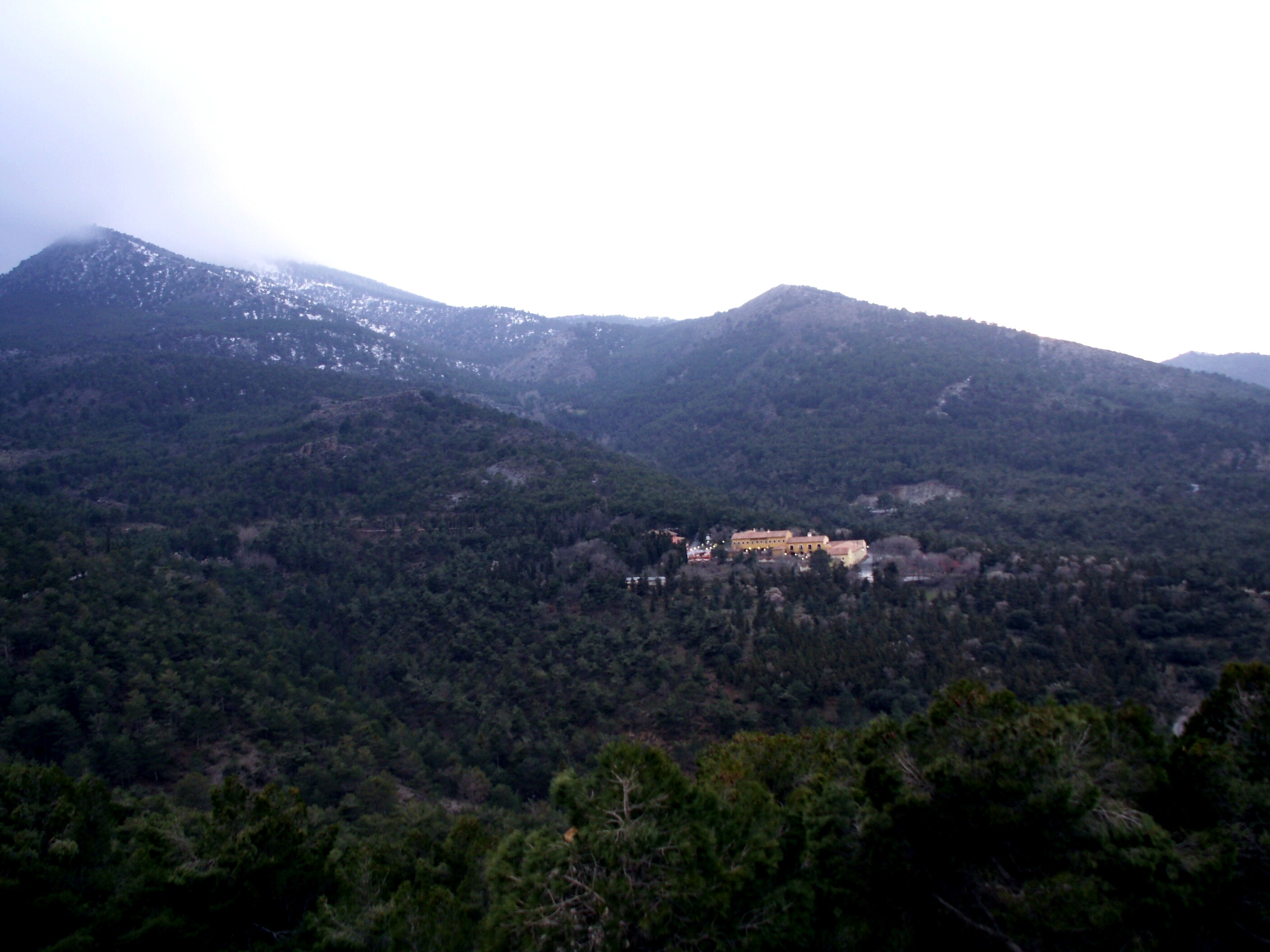 Sierra de Baza, Spain